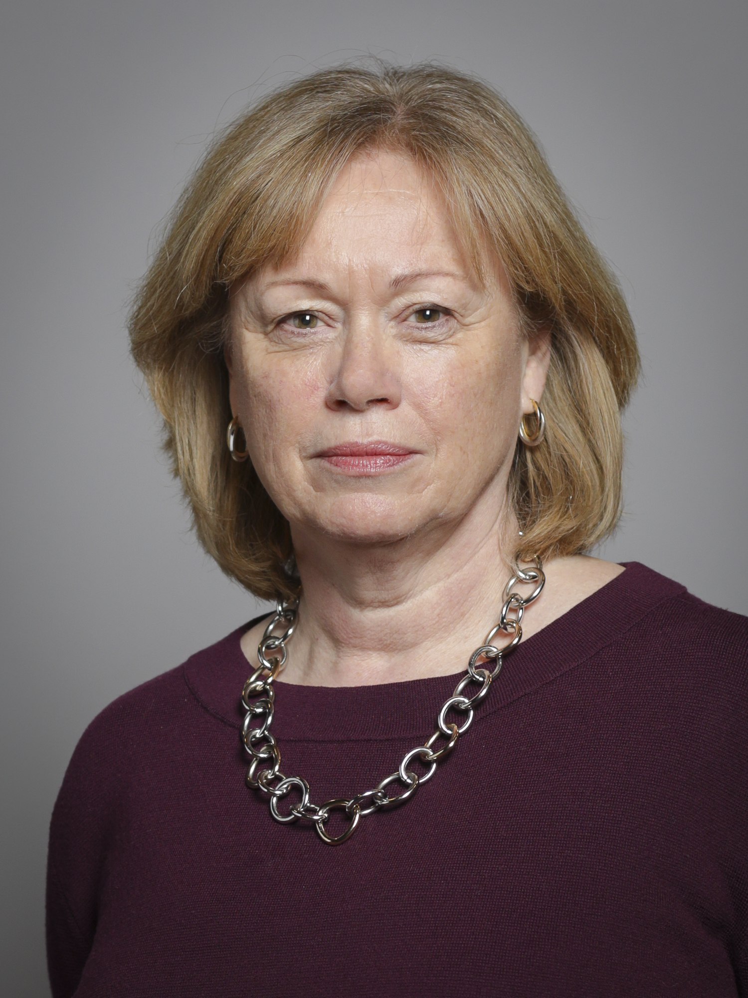 Official portrait of Baroness Smith of Basildon 3×4 portrait of Baroness Smith of Basildon